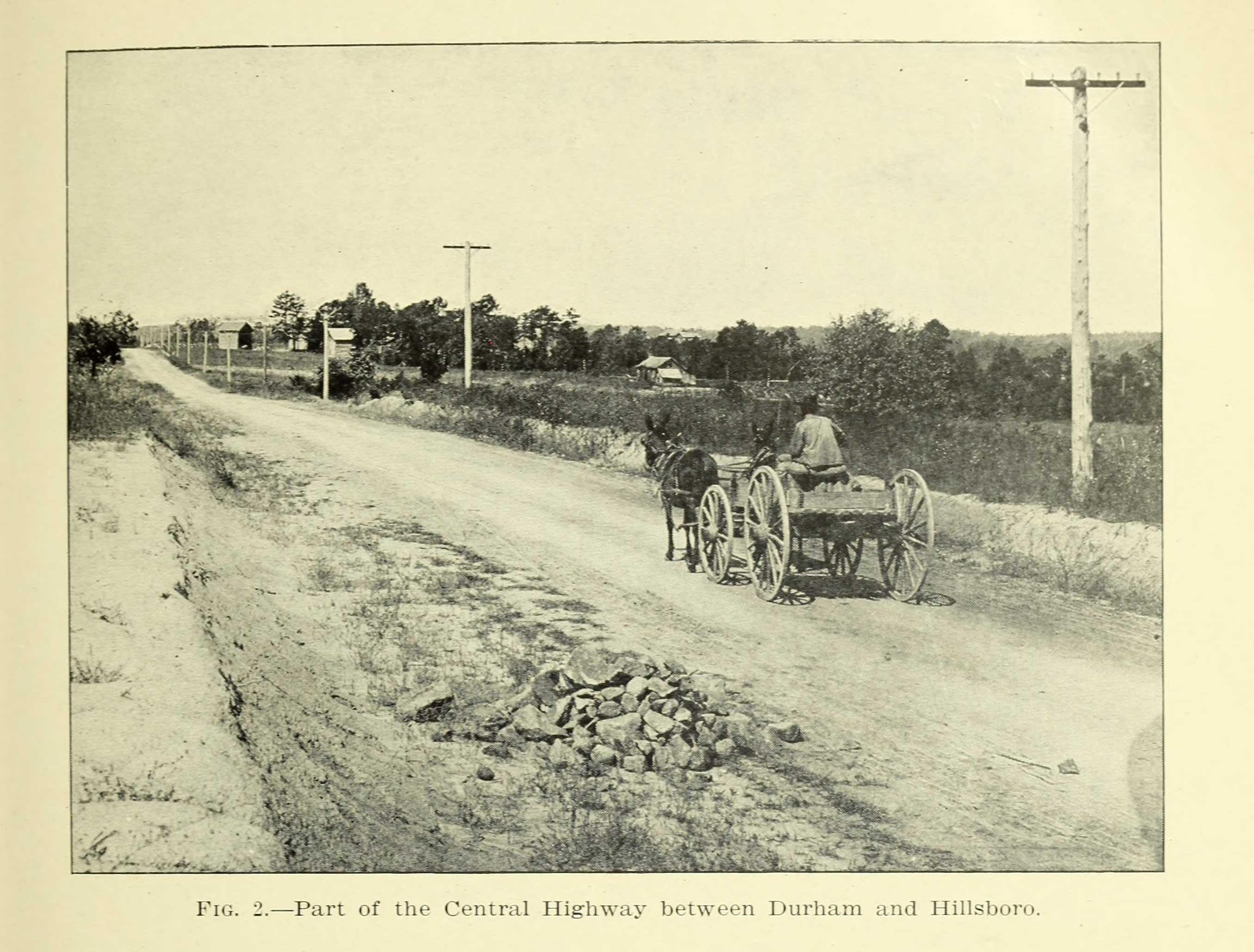 Fig. 2 of "Highway work in North Carolina : containing a statistical report of road work during 1911" (1912), Economic Paper No. 27 of the North Carolina Geological and Economic Survey, by Joseph Hyde Pratt, State Geologist. Image appears opposite page 20.